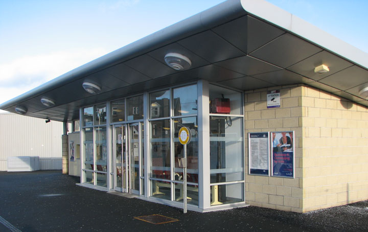 Largs railway station waiting room and ticket office. North Ayrshire, Scotland